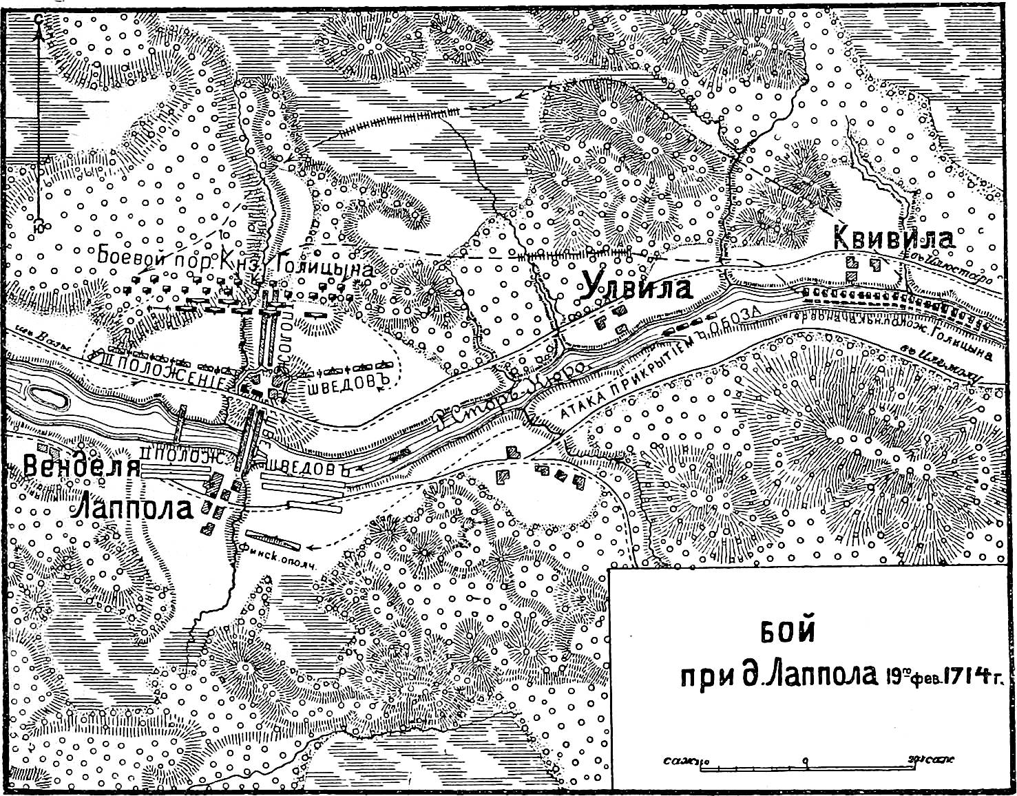 The Battle of Napue (Finnish: Napuen taistelu